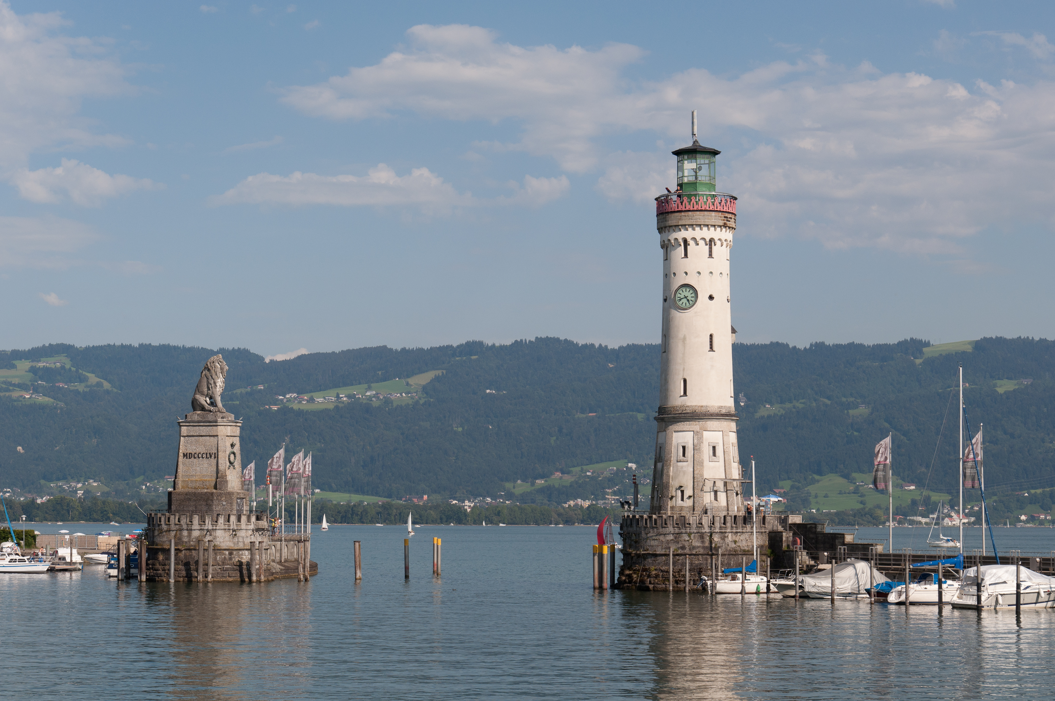 Harbor entrance with Bavarian Lion and New Lighthouse, Lindau (Lake Constance, Germany)